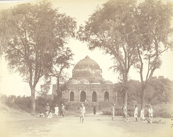 This signed photograph was taken by Charles Lickfold in 1880s. The image shows the tomb of Darya Khan, which now lies in the northern suburbs of modern-day Ahmadabad. It was built in 1453 whilst the city was the capital of the thriving sultanate of Gujarat. The majority of tombs of the period in Gujarat are built using local post and lintel or trabeate methods of construction in yellow sandstone. This tomb differs in two ways: first, it is built using baked brick; and secondly, its architects chose to use true arches and domes according to arcuate methods to create a cavernous interior in which the cenotaph is housed with a surrounded arcaded verandah with five entrances on each of the four sides. The use of the arch and dome was imported to South Asia from Islamic lands to the west. It is likely that Darya Khan was himself an immigrant from Persia, where such methods of construction were more familiar, who required that his own tomb be built in a style in keeping with those of his homeland. He is also attributed with the construction of a mosque using similar arcuate methods.